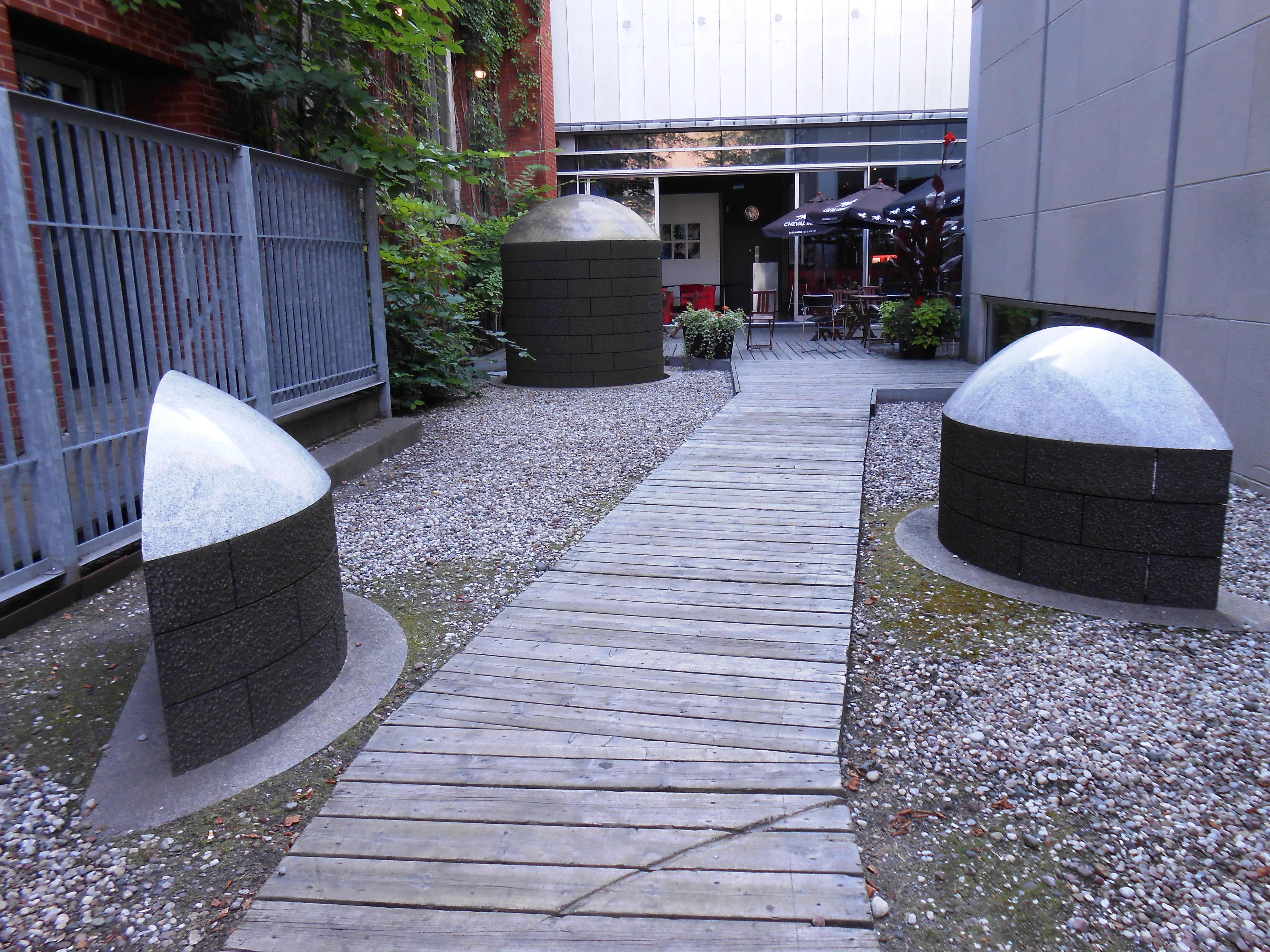 Cirque lunaire (1998), by Marie-France Brière, Cinémathèque québécoise, outside courtyard, 335 De Maisonneuve Boulevard East